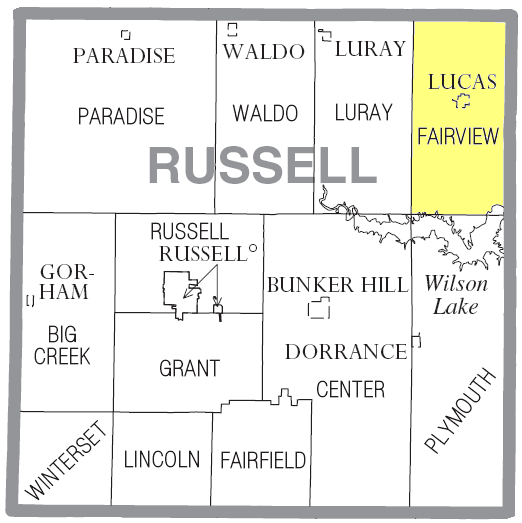 Map of Russell County, Kansas highlighting Fairview Township